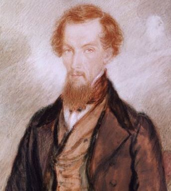 Sir Henry Montgomery Lawrence, by Unknown artist,watercolour on ivory, circa 1847. 4 1/2 in. x 3 3/8 in. (114 mm x 87 mm). National Portrait Gallery, London Given by Charles Stewart Hardinge, 2nd Viscount of Hardinge of Lahore, 1884 NPG 727